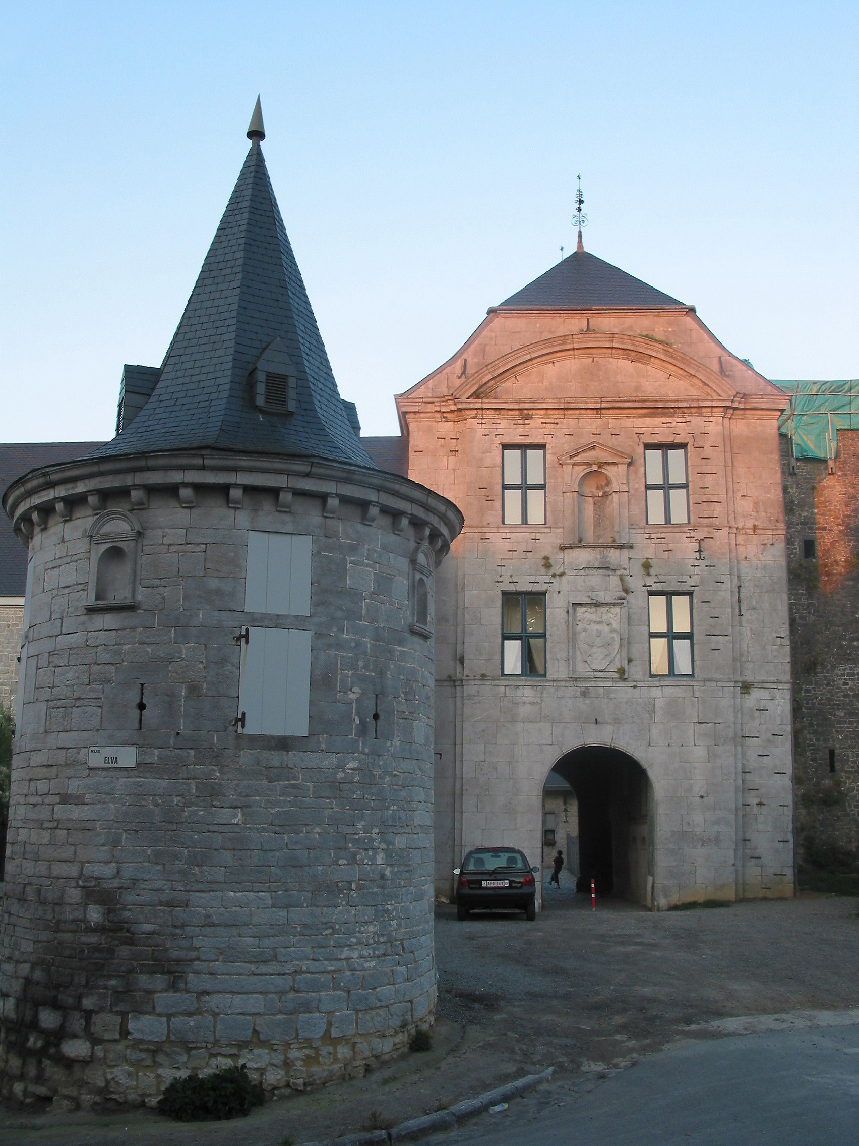 Anthisnes (Belgium), the St. Lawrence abbey farm (XVIIth century).